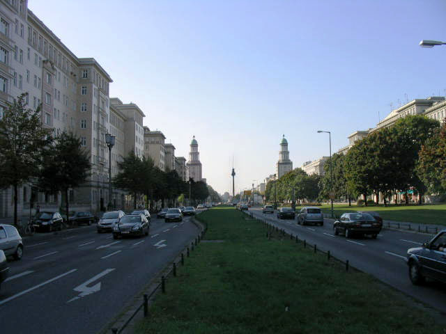 Description: View on twin towers of Frankfurter Tor in Berlin. Buildings of Block G on either side. Source: self-made. I release it into the public domain. Gryffindor 16:40, 10 April 2006 (UTC)